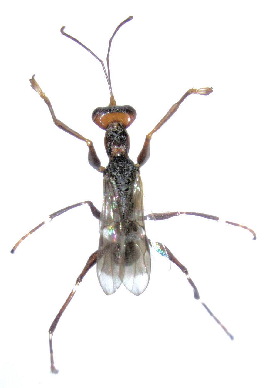 adult female Dryinus koebelei (dorsal view)